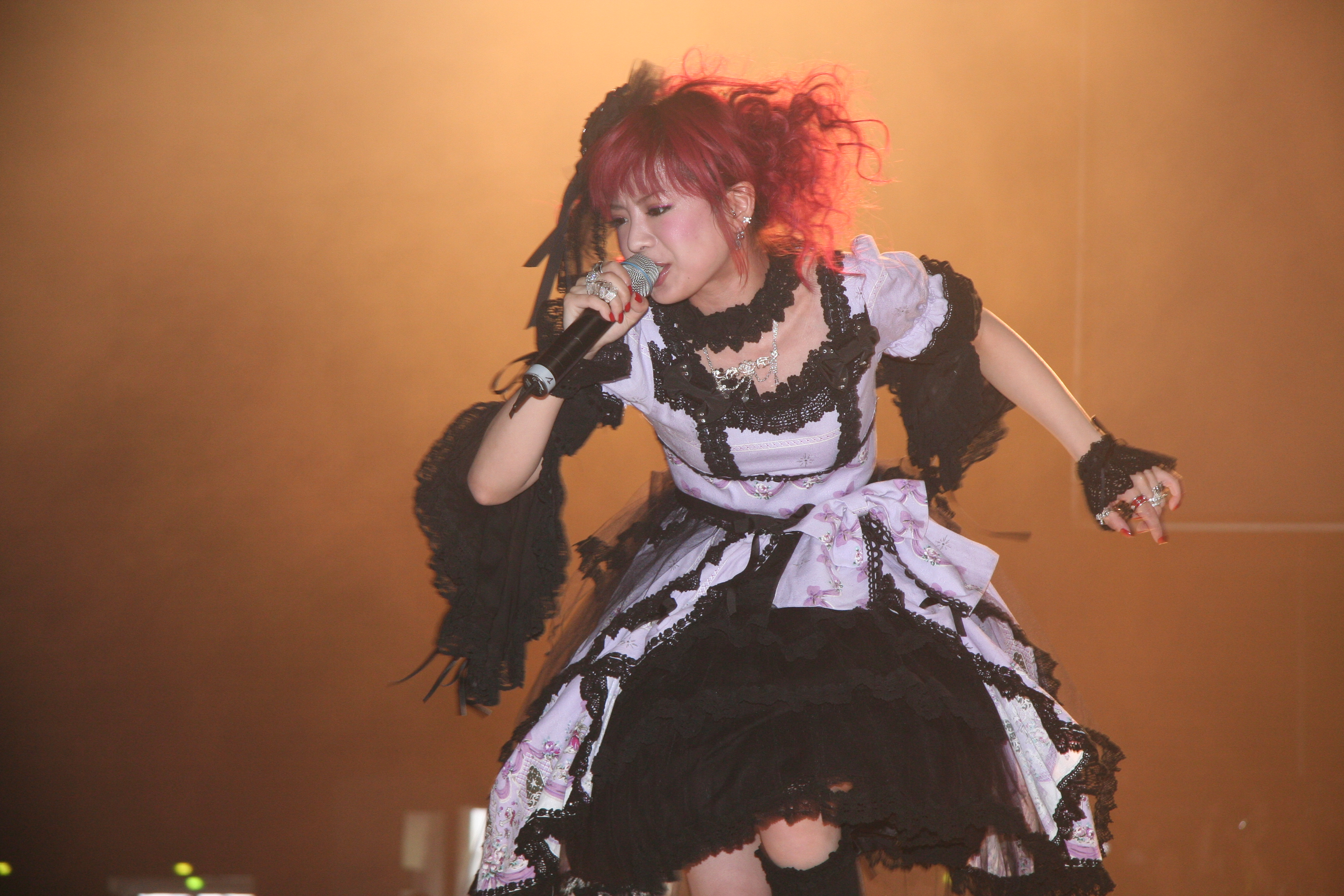 Nana Kitade live at Japan Expo 2007 (Paris, France).